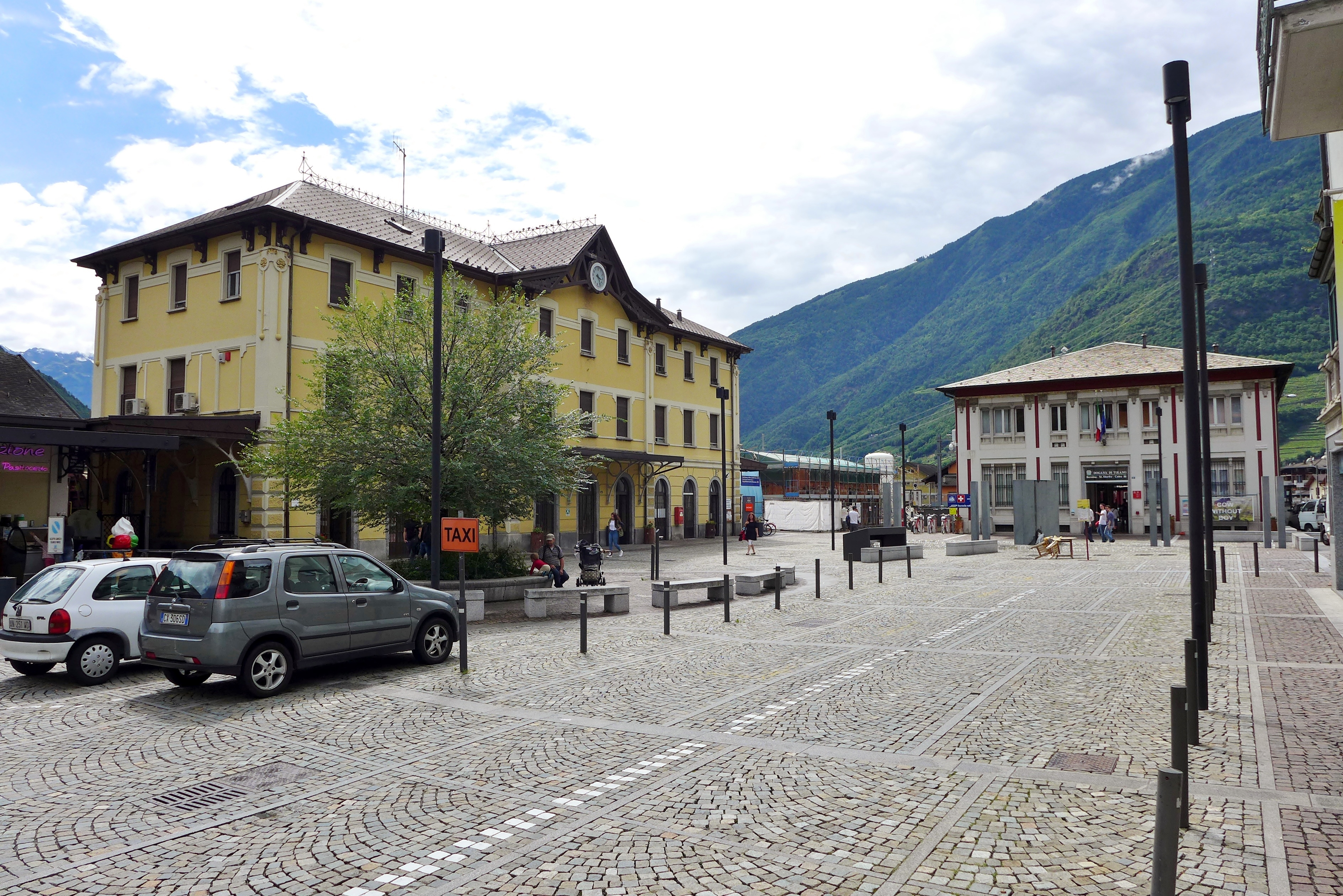 View of the Tirano railway station (RFI) (left) and Tirano railway station (RhB) (right) in Tirano, Italy.